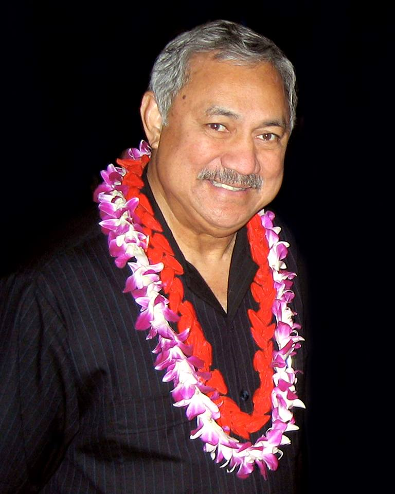 Portrait and profile picture of U.S. Delegate Eni Faleomavaega (D-American Samoa)